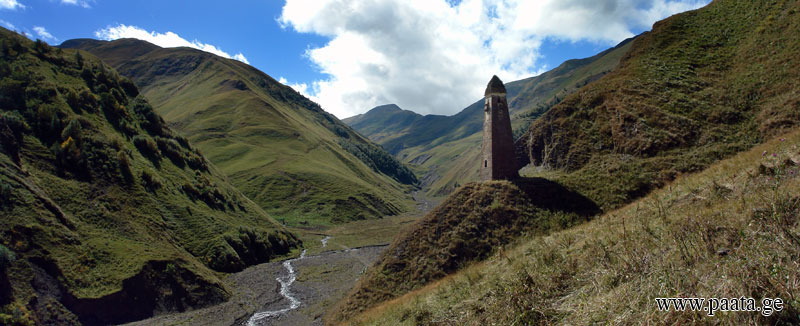 Labaiskari Tower in Khevsureti, Georgia